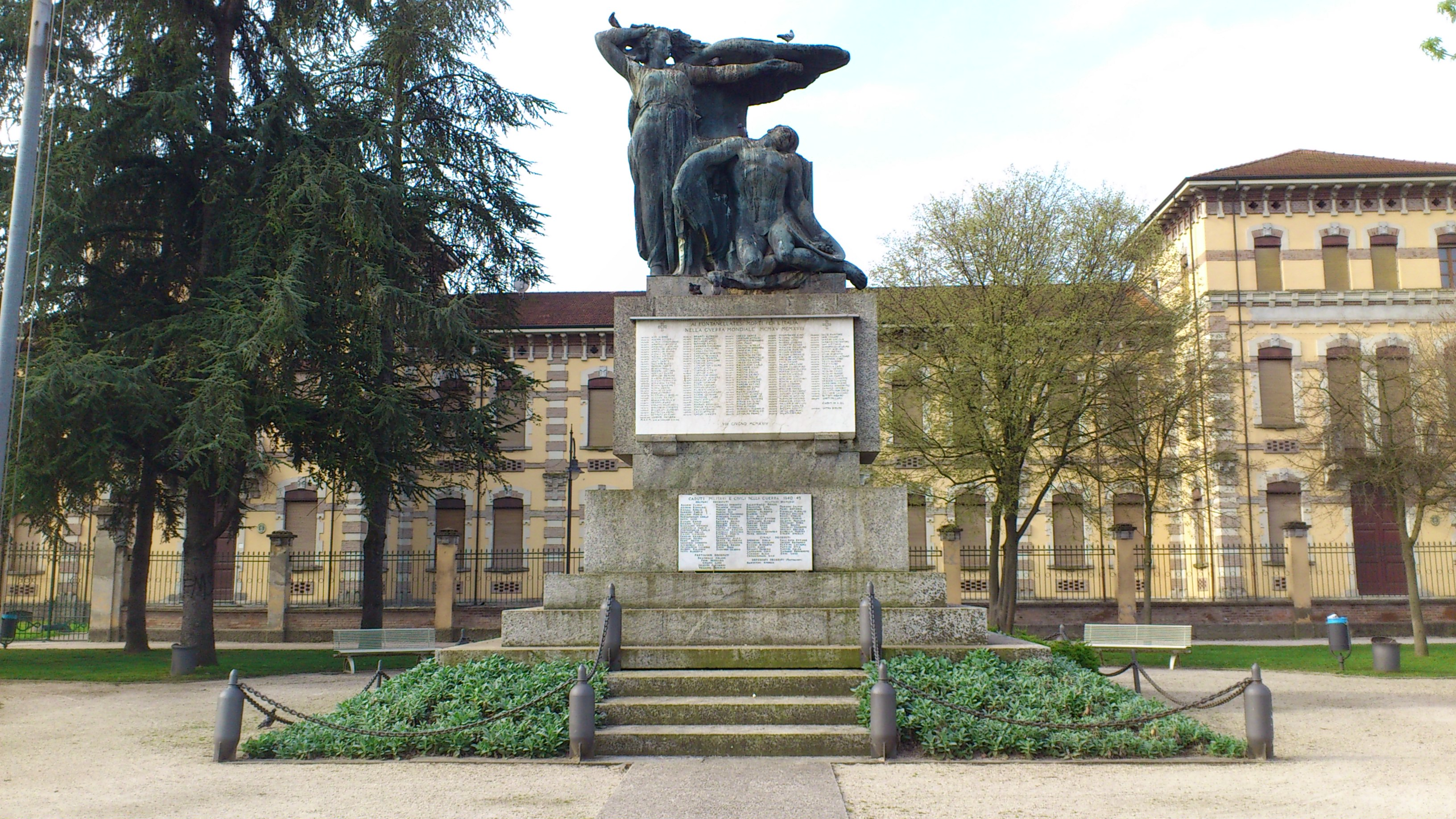 Further informations here